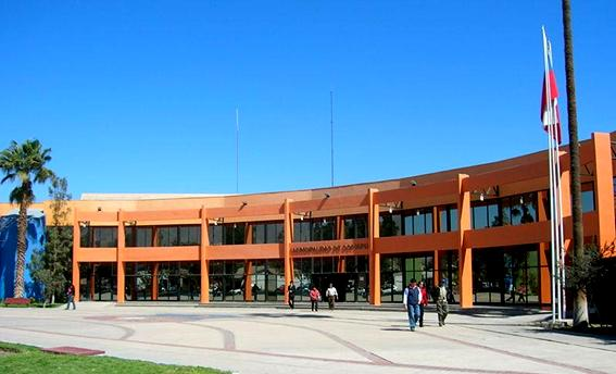 Copiapó's City Hall of Culture.